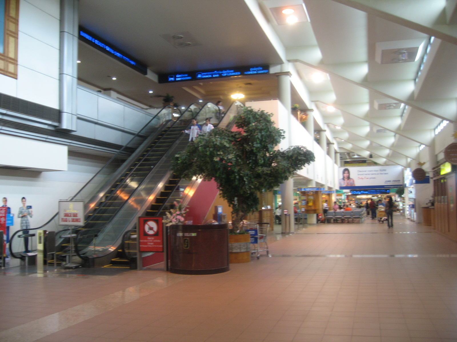 Bangkok (Don Mueang) International Airport, Terminal 2, Departure Restricted Area.